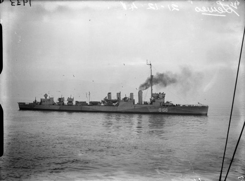 HMS Lewes Underway in Plymouth Sound.